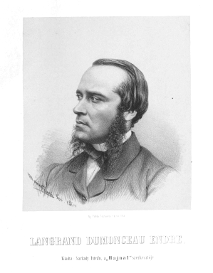 Etching of André Langrand-Dumonceau. Cropped and lightened by the uploader.